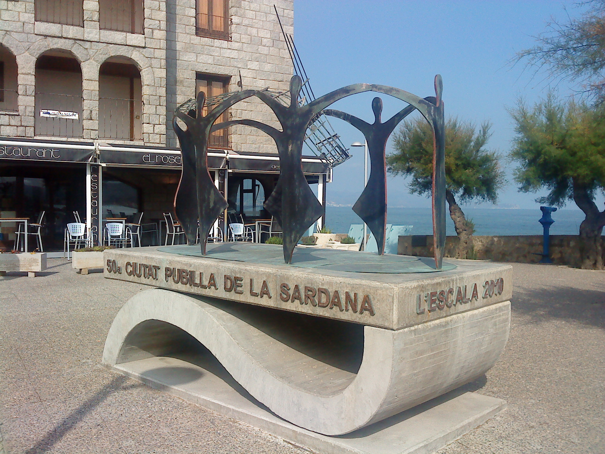 Monument 50th Ciutat de la pubilla de la Sardana, L'Escala (Catalonia) 2010